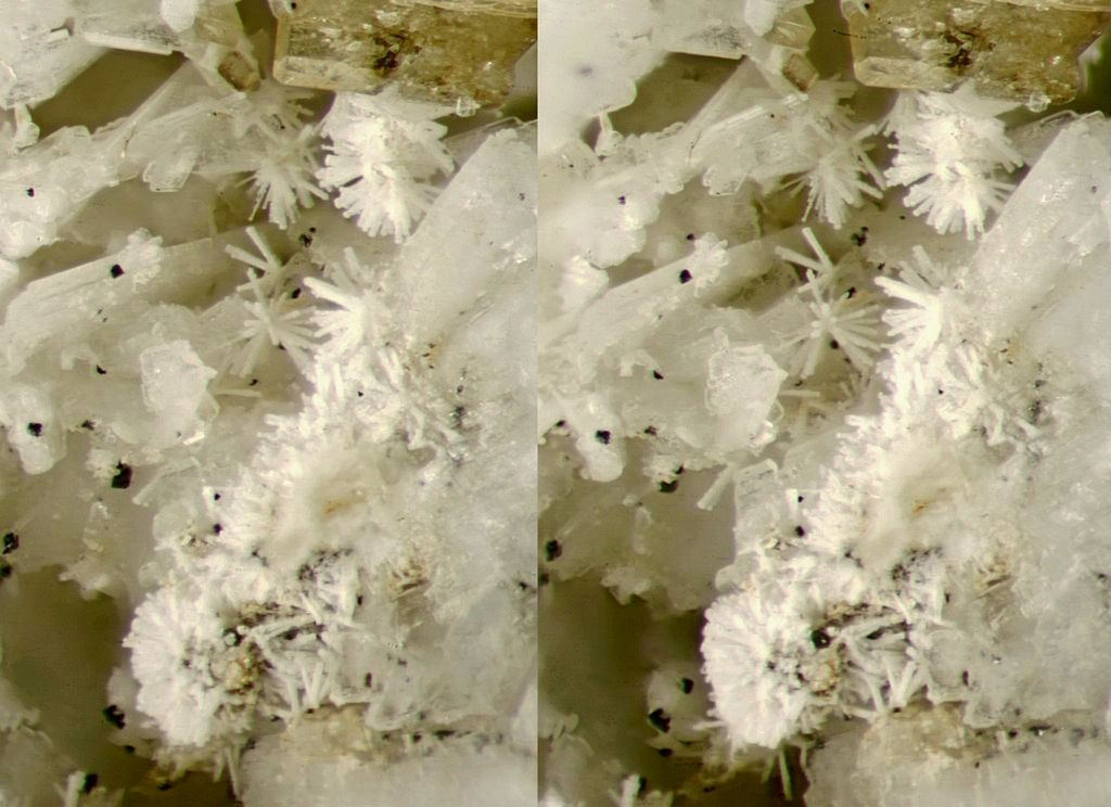 Thorbastnäsite, Albite (FOV 1.3 mm x 1.9 mm) Locality: Poudrette quarry (Demix quarry; Uni-Mix quarry; Desourdy quarry; Carrière Mont Saint-Hilaire), Mont Saint-Hilaire, La Vallée-du-Richelieu RCM, Montérégie, Québec, Canada Description: Thanks to Marc F. Analyzed find. Stereo pair (not very clear in mono). MOB coll. It has been claimed that this is really röntgenite with thorbastnäsite but the analysis label (see child photo) only mentions the latter. (And there are those who claim that röntgenite is a bit like cold fusion. Beyond my ken ...) The tiny black things look like pseudo-octahedral brookite (similar to Dana 3rd ed. fig. 726). But too small to be sure.